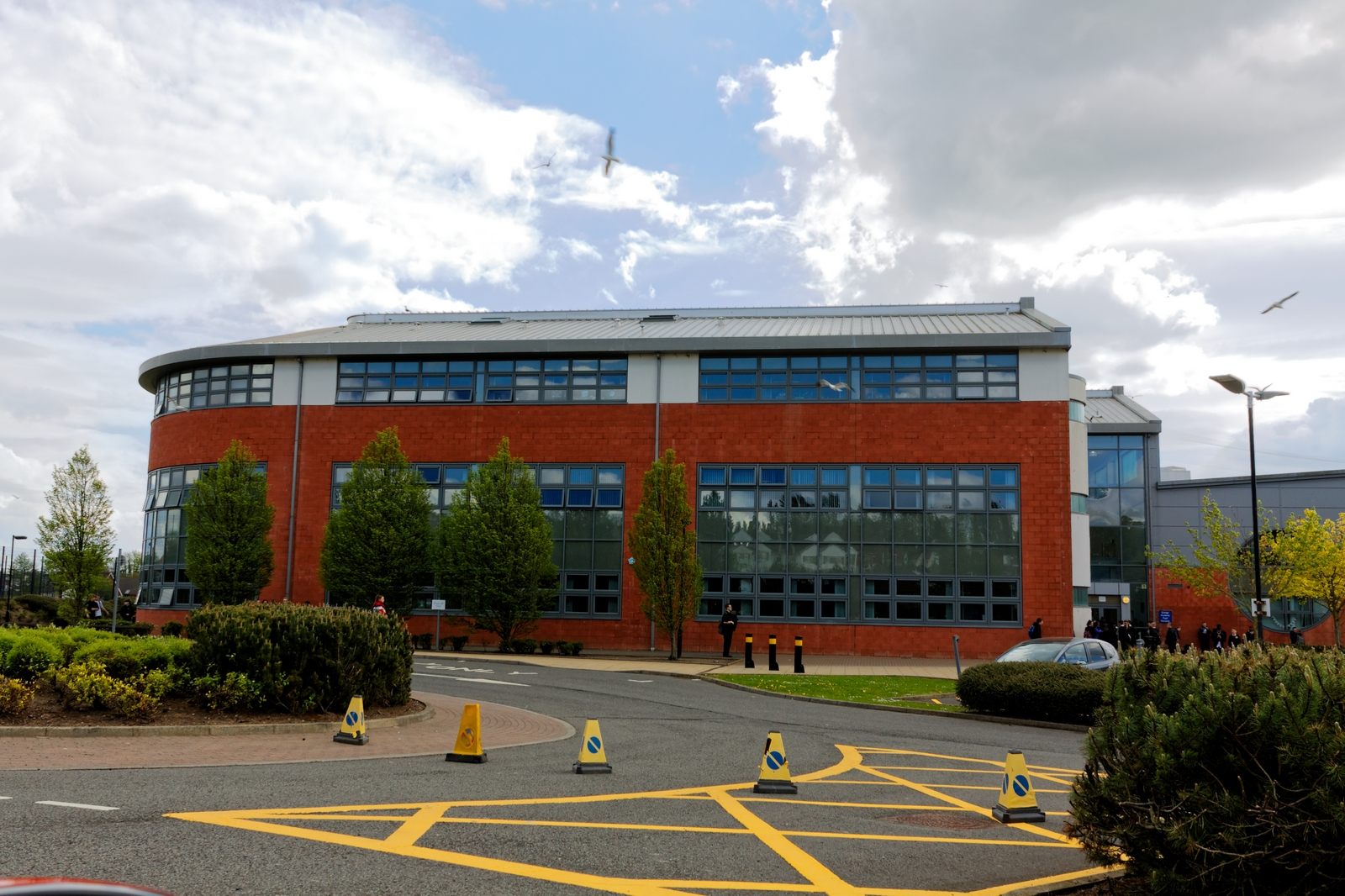 Grange Academy in Kilmarnock, Scotland